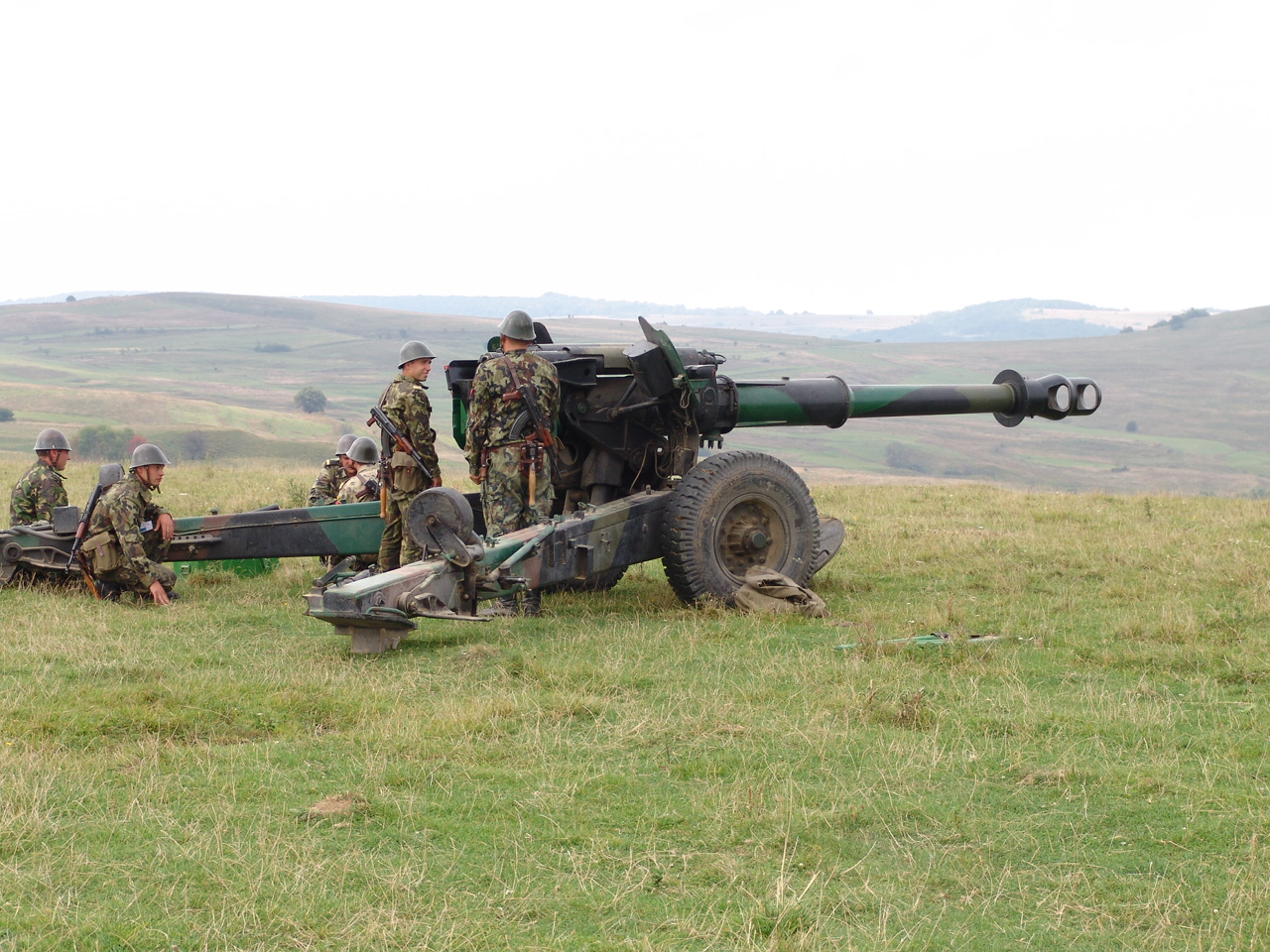 152 mm howitzer M81 ready to fire.